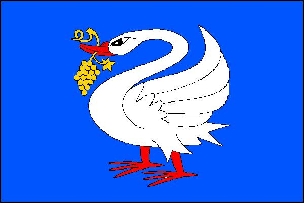 Municipal flag of Labuty village, Hodonín District, Czech Republic.